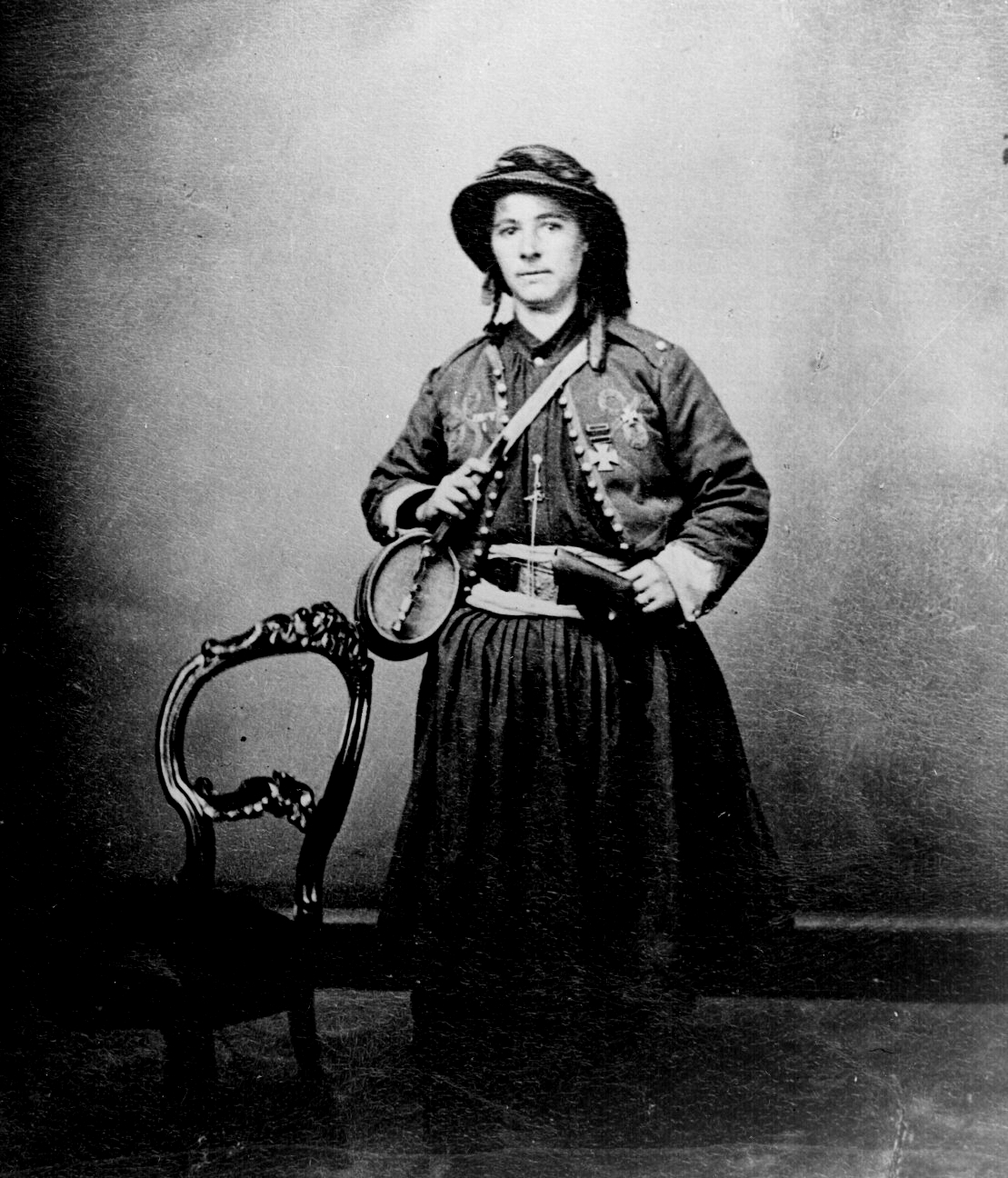 Marie Tepe (1834-1901), served with the 27th and 114th Pennsylvania Infantry, also know as "French Mary", was a Vivandière in the US Civil War.